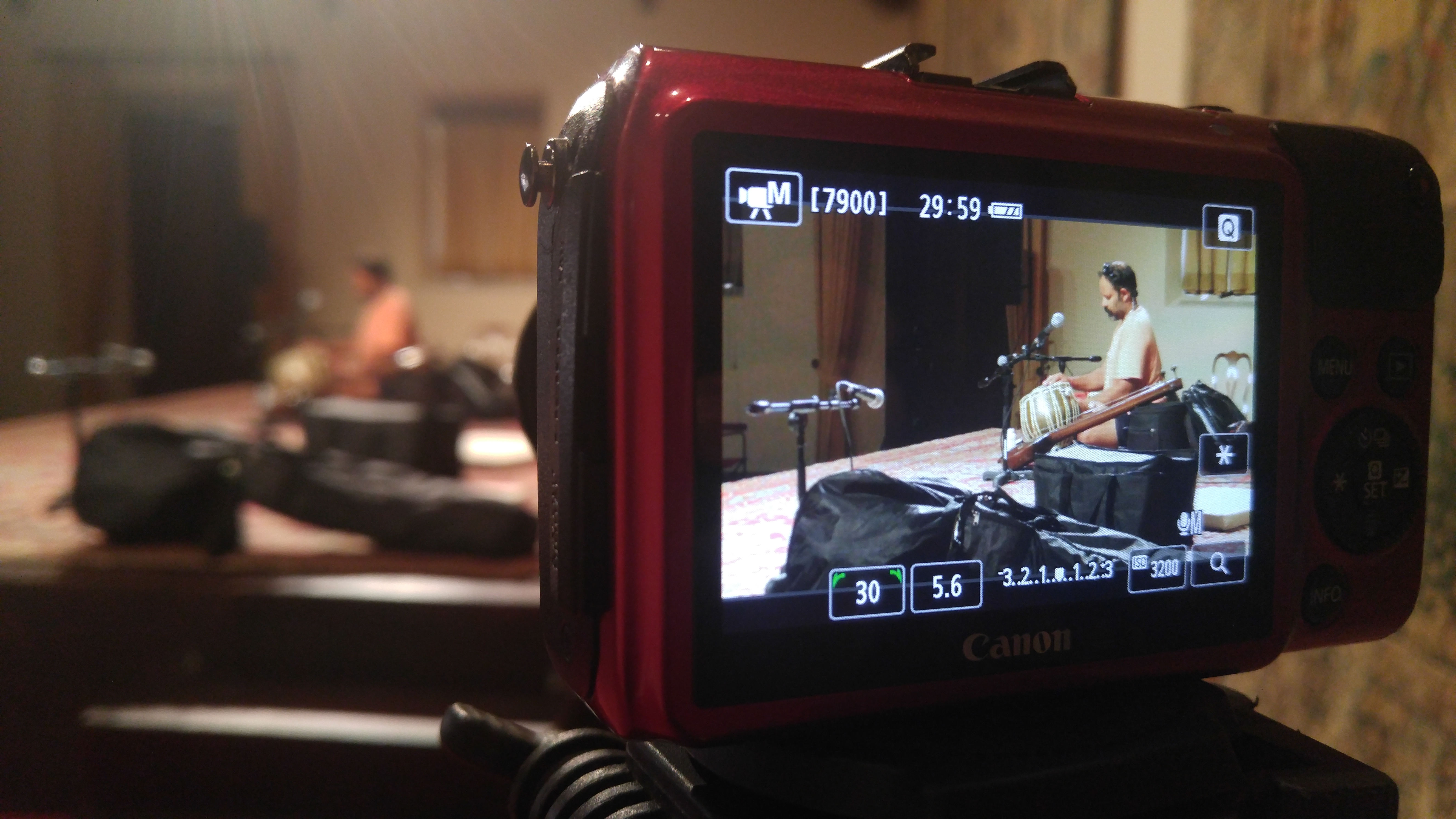 Canon EOS M used with manual settings.